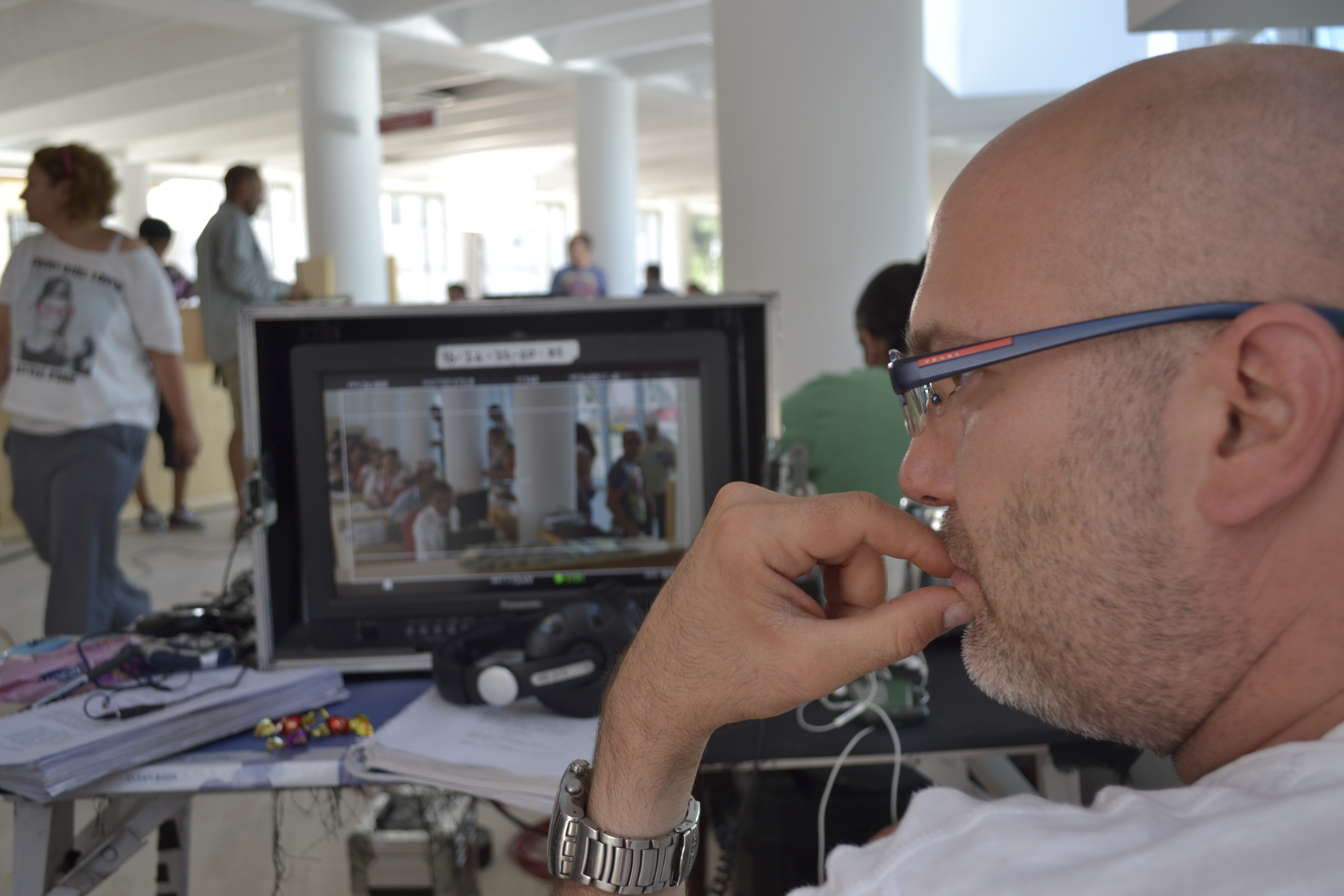 Director Atil Inac on the set of "Circle"